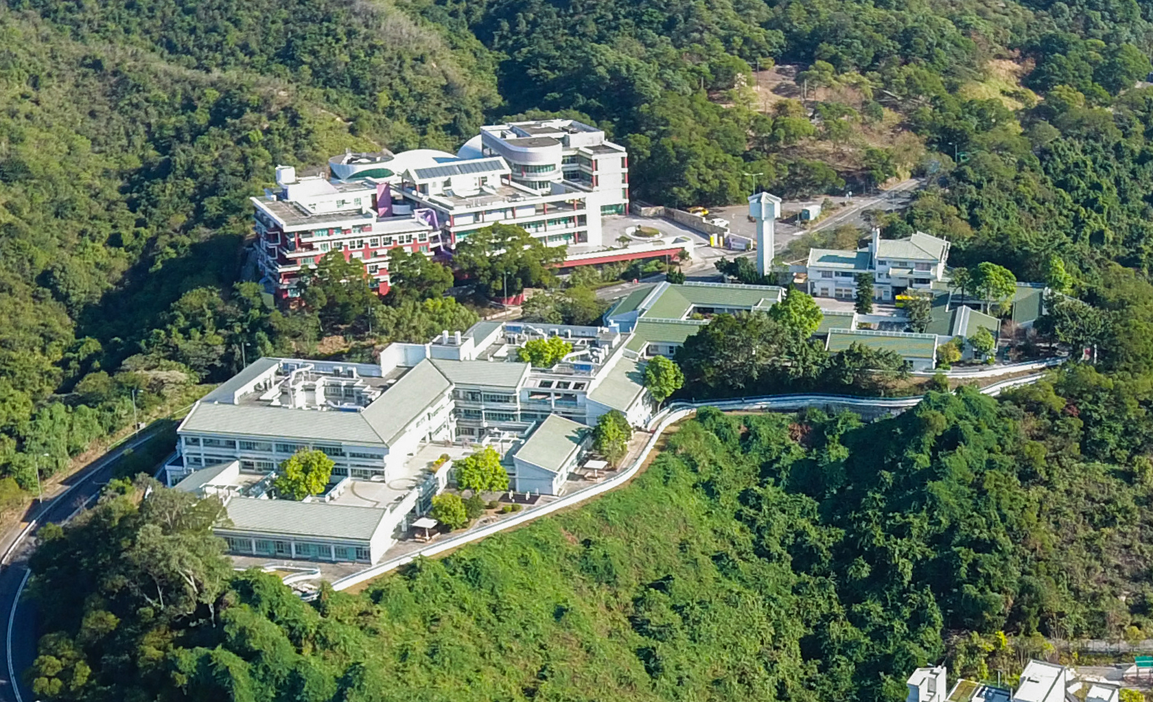 Cheshire Home Shatin 新界沙田區亞公角亞公角山路30號, A Kung Kok Shan Road